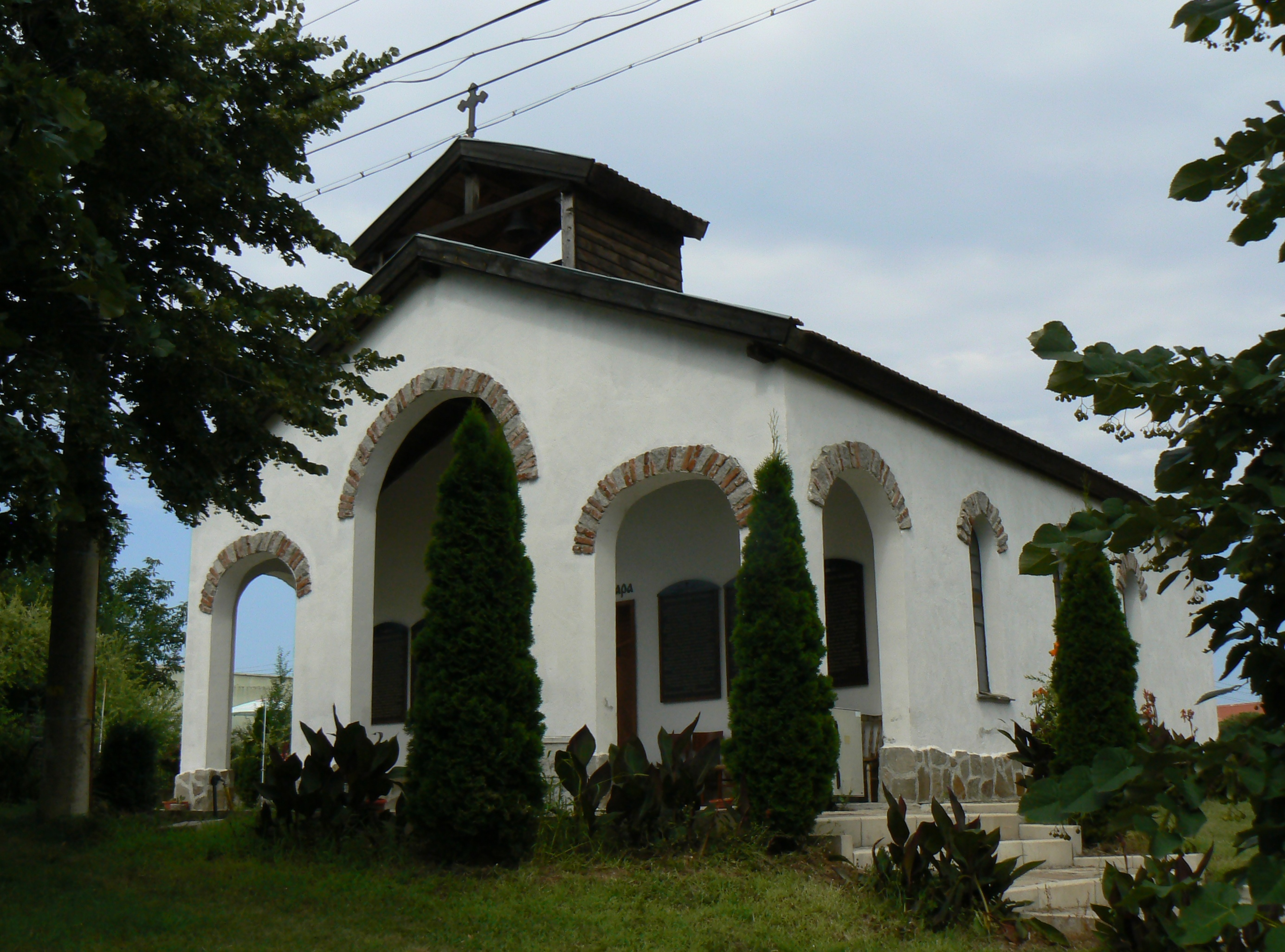 Church "St. Barbara" in the village of Varvara, Burgas District, Bulgaria